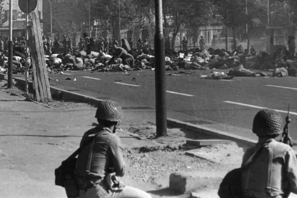 Black Friday (7th od September 1978)